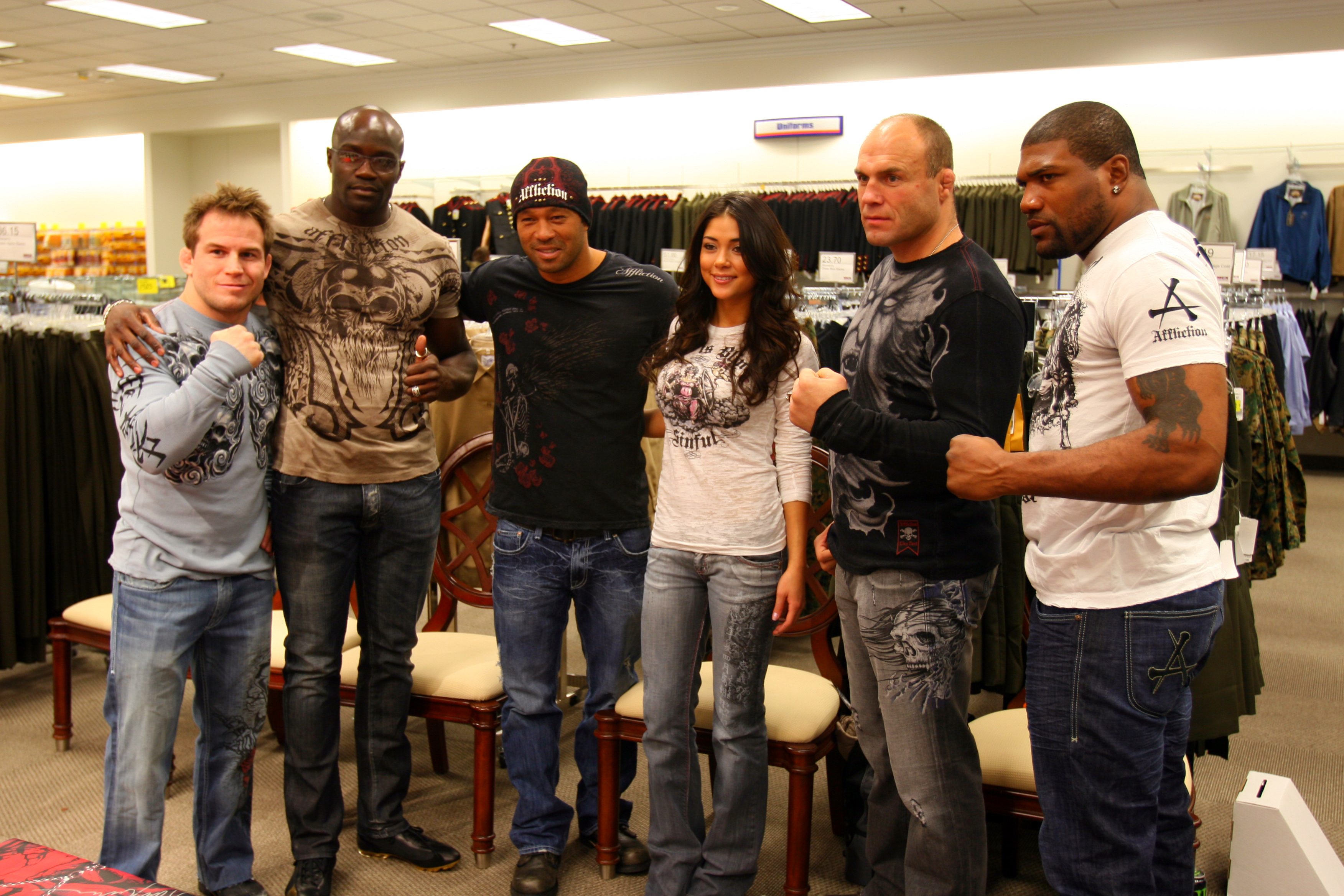 MIRAMAR, Calif. (Jan. 6, 2008) Ultimate Fighting Championship (UFC) fighters and the ring card girl stand together during the UFC Affliction autograph signing at the Marine Corps Air Station Miramar Marine Corps Exchange. UFC fighters who appeared during the autograph signing were, from left, Sean Sherk Cheick Kongo, Sunny Garcia, Arianny Celeste, Randy "The Natural" Couture, and Quinton "Rampage" Jackson. U.S. Marine Corps photo by lance corporal Dan T. Le (RELEASED)